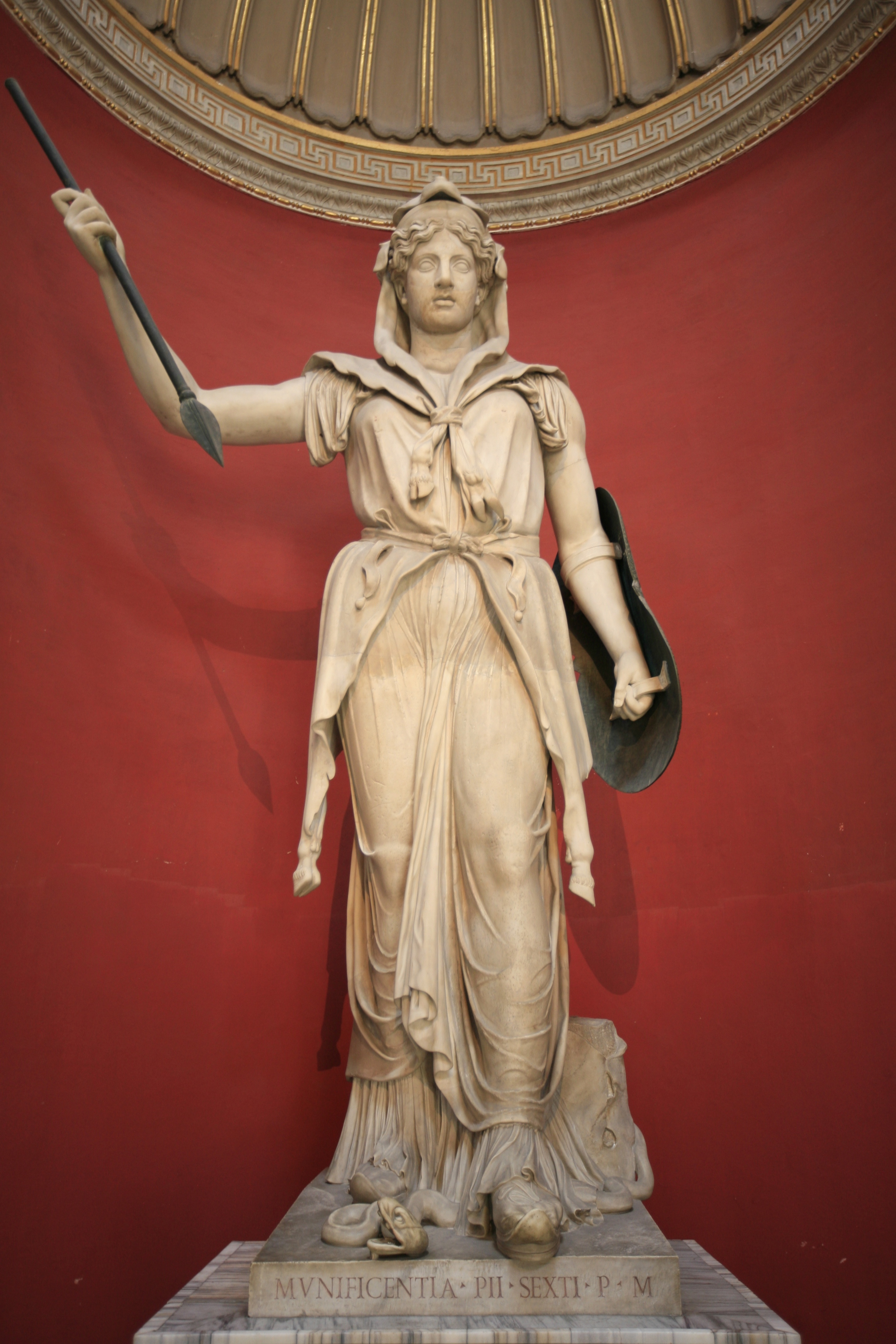 Warrior in the Vactican